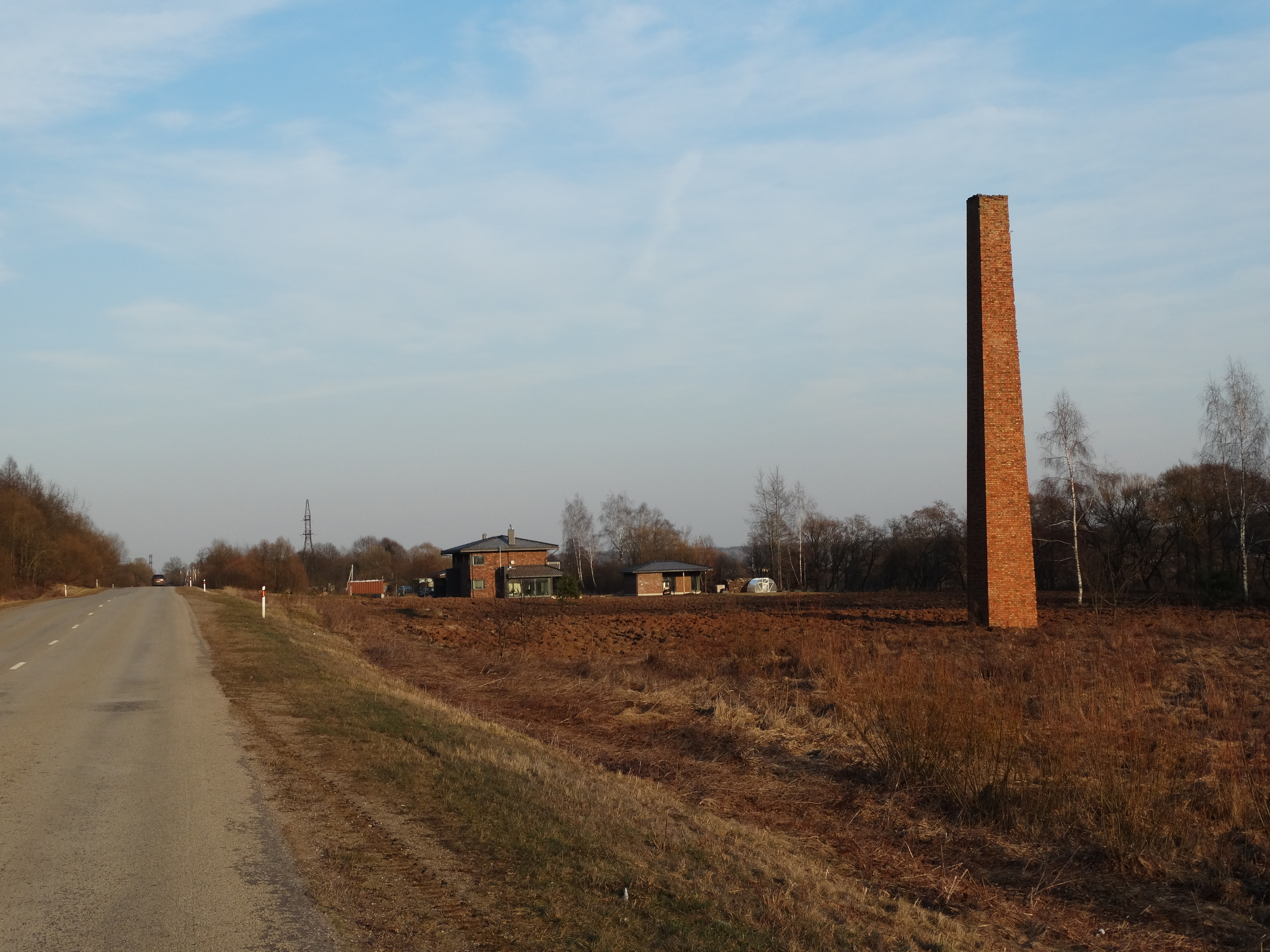 Tower by Kurmagala, Jonava district, Lithuania